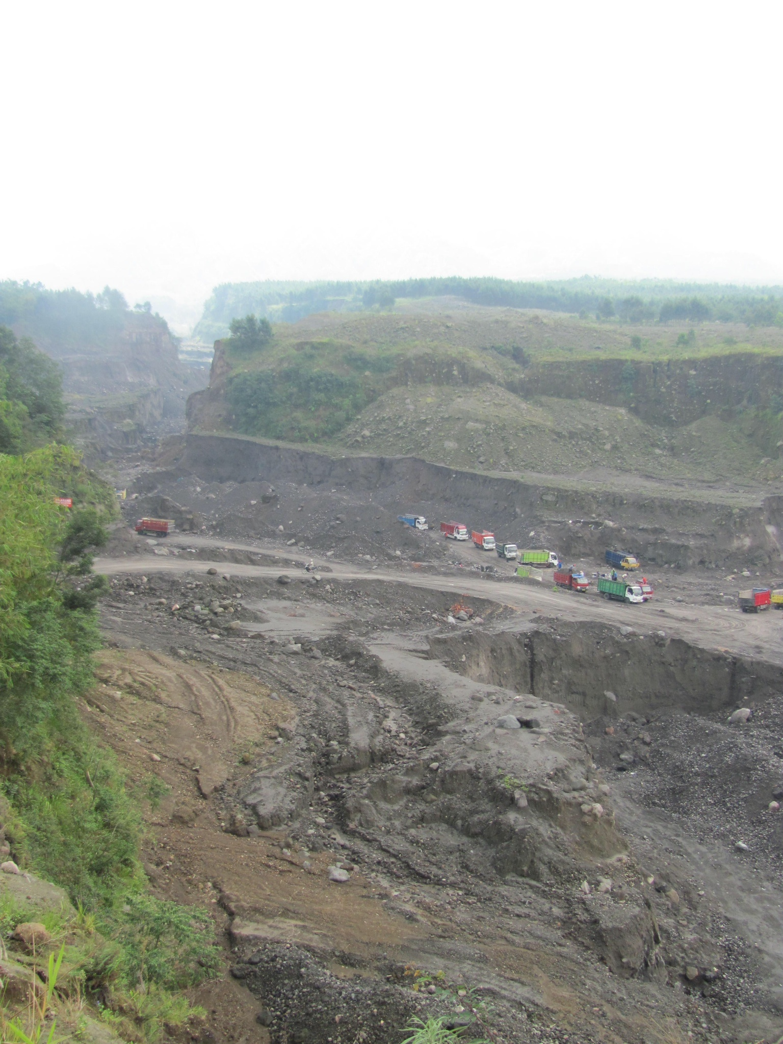 Merapi lava deploration